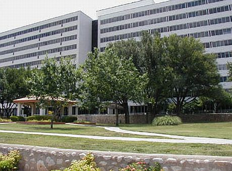 Baptist Memorial Retirement Condos, San Angelo, TX